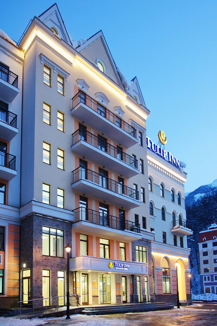 Tulip Inn Rosa Khutor Hotel is the first choice for comfort-loving guests desire to be in the thick of things during the Olympics 2014 and seeking perfect service and value for money.